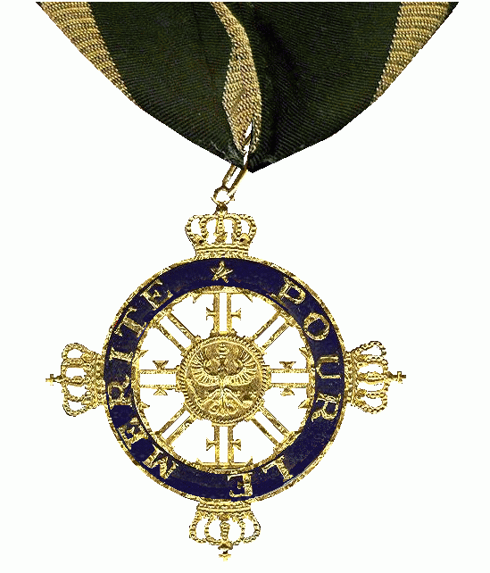 The Order Pour le Mérite Orden "Pour le mérite" for scieces and arts.